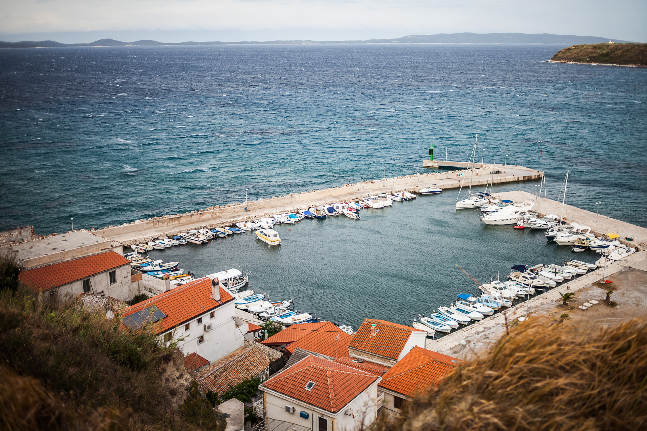 The harbor of Susak.